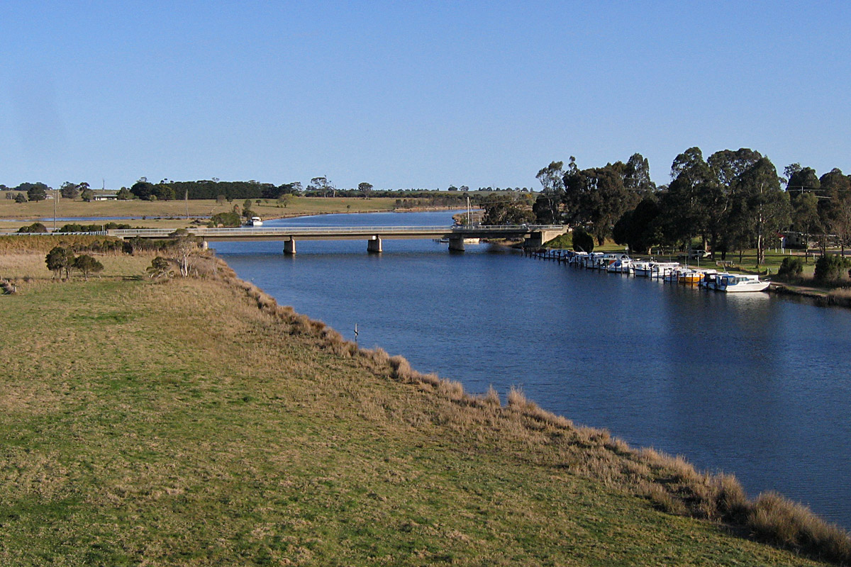 Looking south down the Nicholson River towards the Princes Highway road bridge from the East Gippsland Rail Trail former railway trestle bridge, Nicholson, Victoria, Australia.